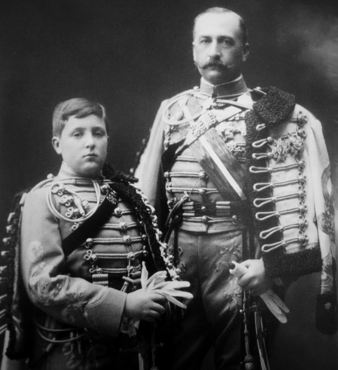 Photographical portrait of Infante Alfonso of Bourbon-Two Sicilies, Duke of Calabria (left) with his father, Prince Carlos of Bourbon-Two Sicilies (right). Both are wearing the uniform of the "Húsares de la Princesa" in Madrid, 1913.